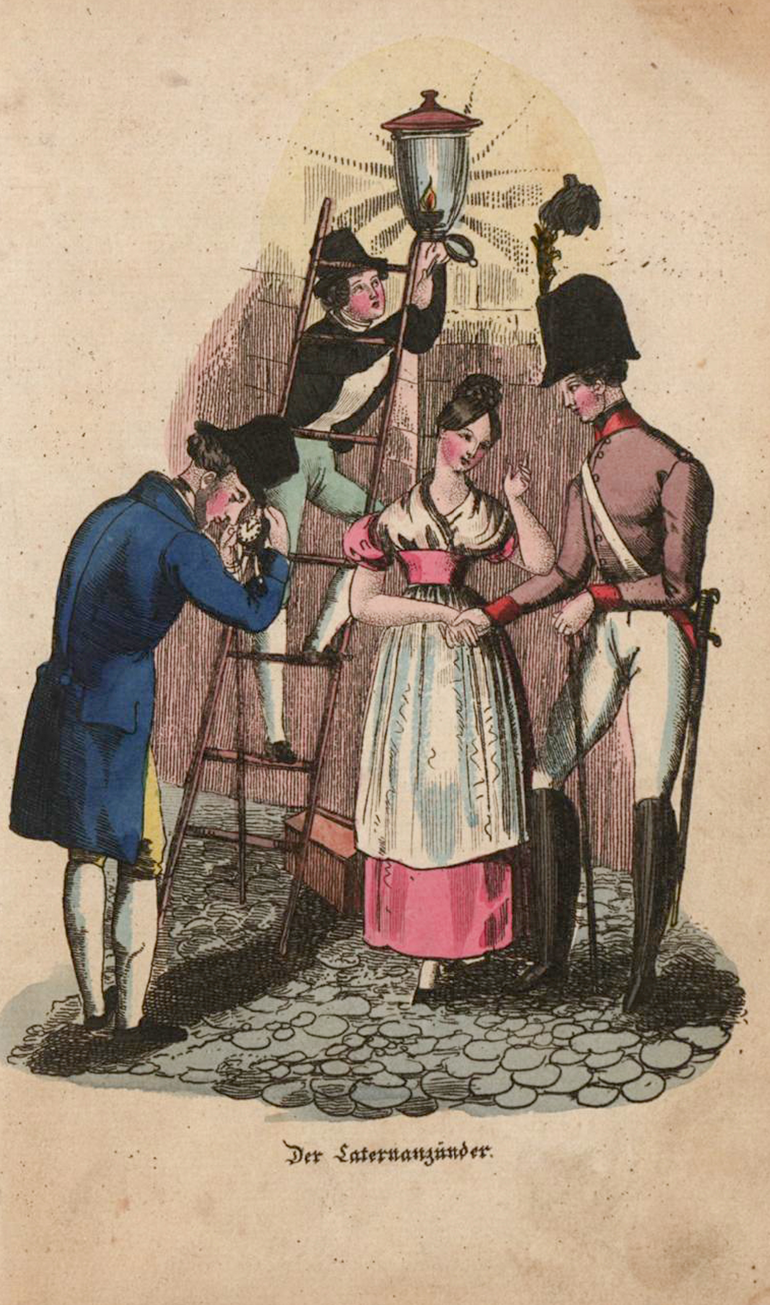 This is a scan of a historical document. A basal reader, in german, printed in Vienna, 1835: Reading exercises for the tender youth.